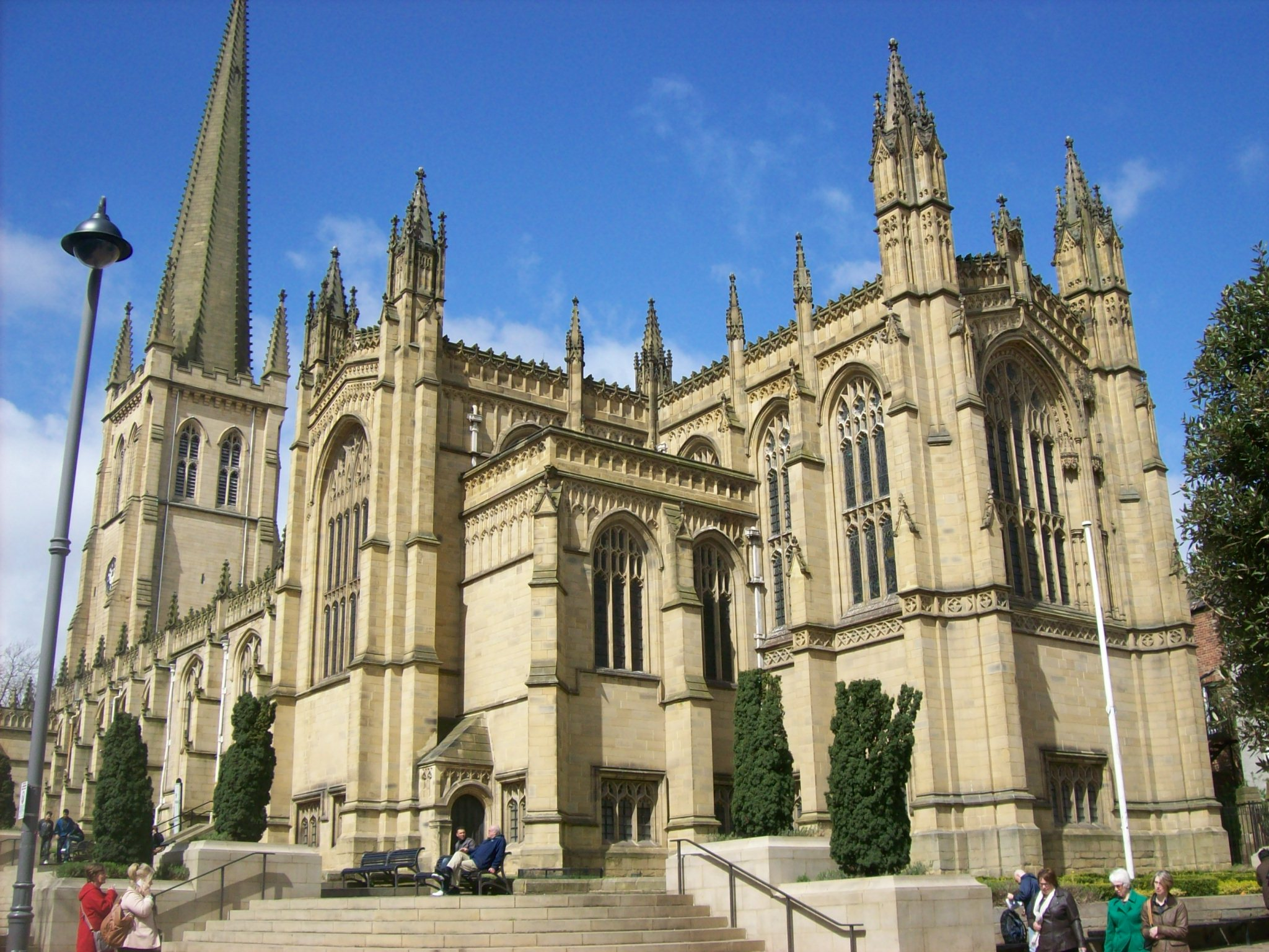 Wakefield Cathedral from east